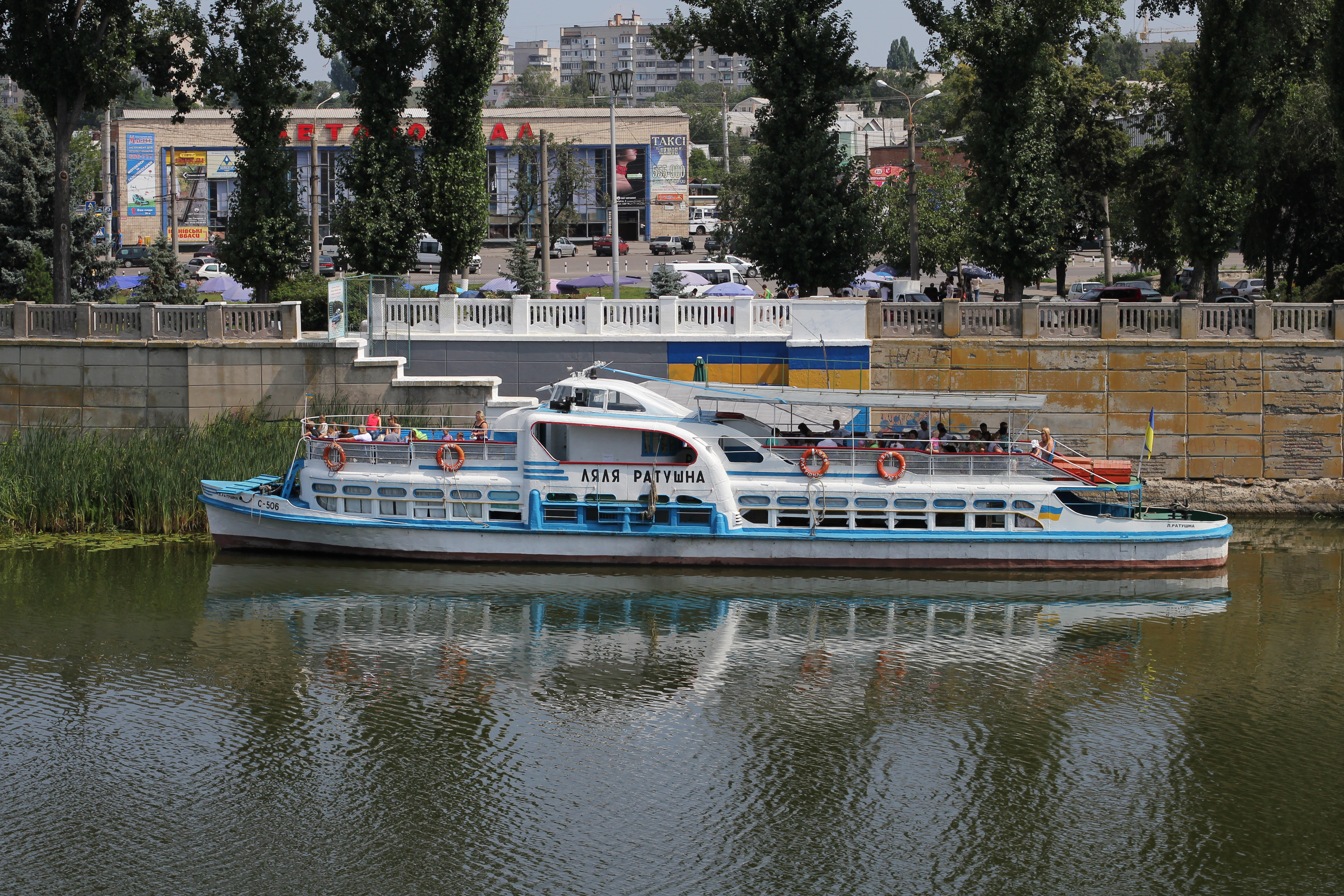 Vinnitsa, Ukraine. View from a bridge to the Southern Bug river. Old passenger river ship "Lyalya Ratushna" (Type Moskvich ship). This ship named in memory of Ratushnaya Larisa Stepanovna (1921-1944), Soviet guerrilla, Hero of the Soviet Union.